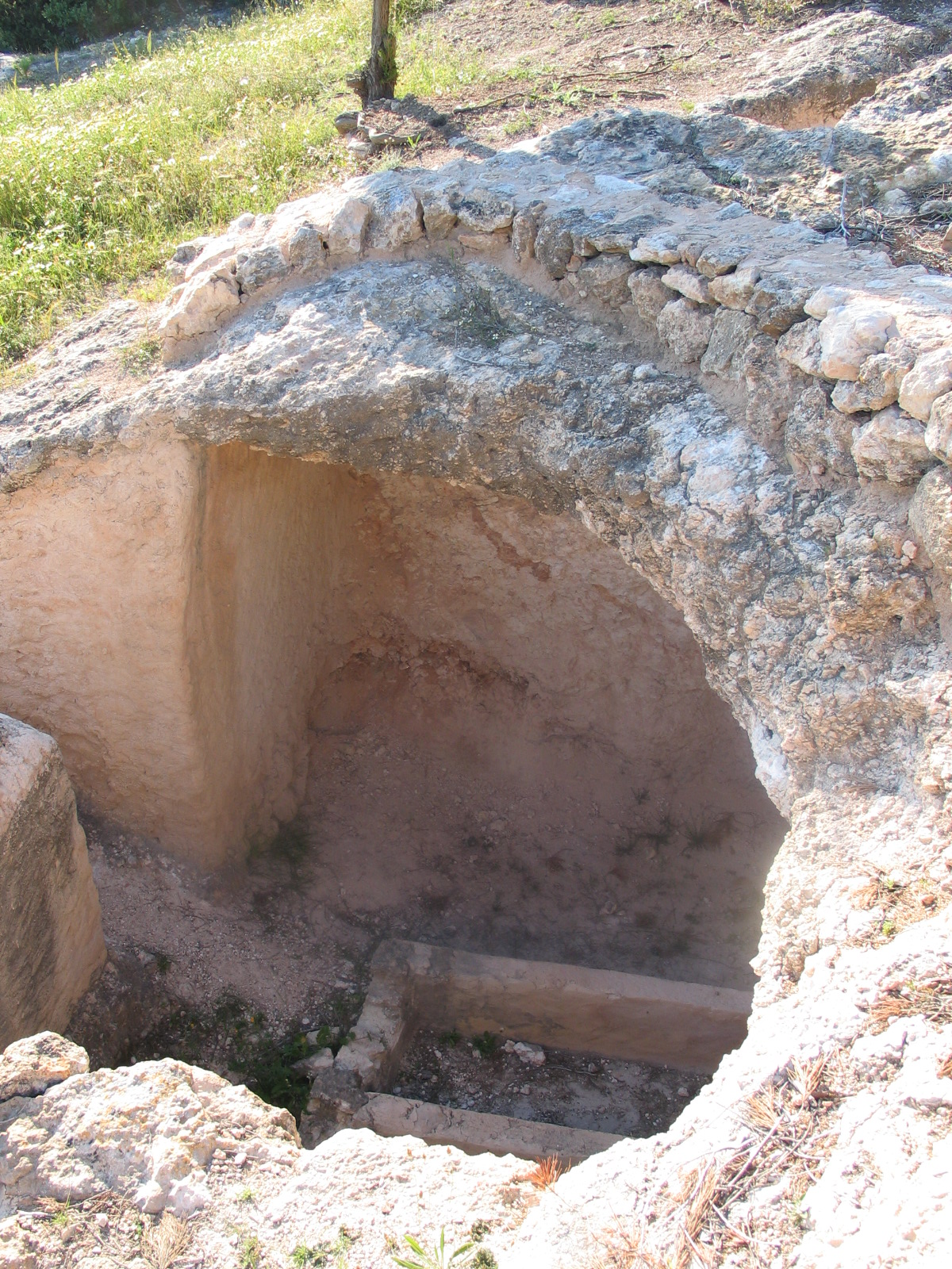 detail of the grave yard of the Phoenicians at Cala d'Hort on the isle of Ibiza